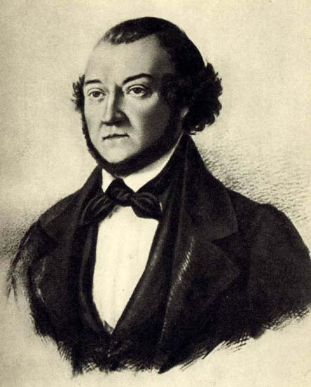 Alexander Alyabyev, (1787 – 1851) was a Russian composer known as one of the fathers of the Russian art song. Among his many pieces were seven operas, twenty musical comedies, a symphony, three string quartets, and more than 200 songs.